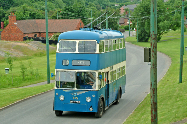 Bradford Trolleybus 735 at Black Country Living Museum Bradford Corporation trolleybus 735 was a guest at the "Trolley 21" event at the Black Country Living Museum in June 2008. The vehicle is a Karrier W dating from 1946 with a new East Lancs Coachbuilders front entrance body dating from 1959. Yorkshire saw the last UK trolleybus system close when Bradford ceased operations in 1972. The county could well see the first new generation system in the UK as Leeds are planning to open a new system in the next few years.